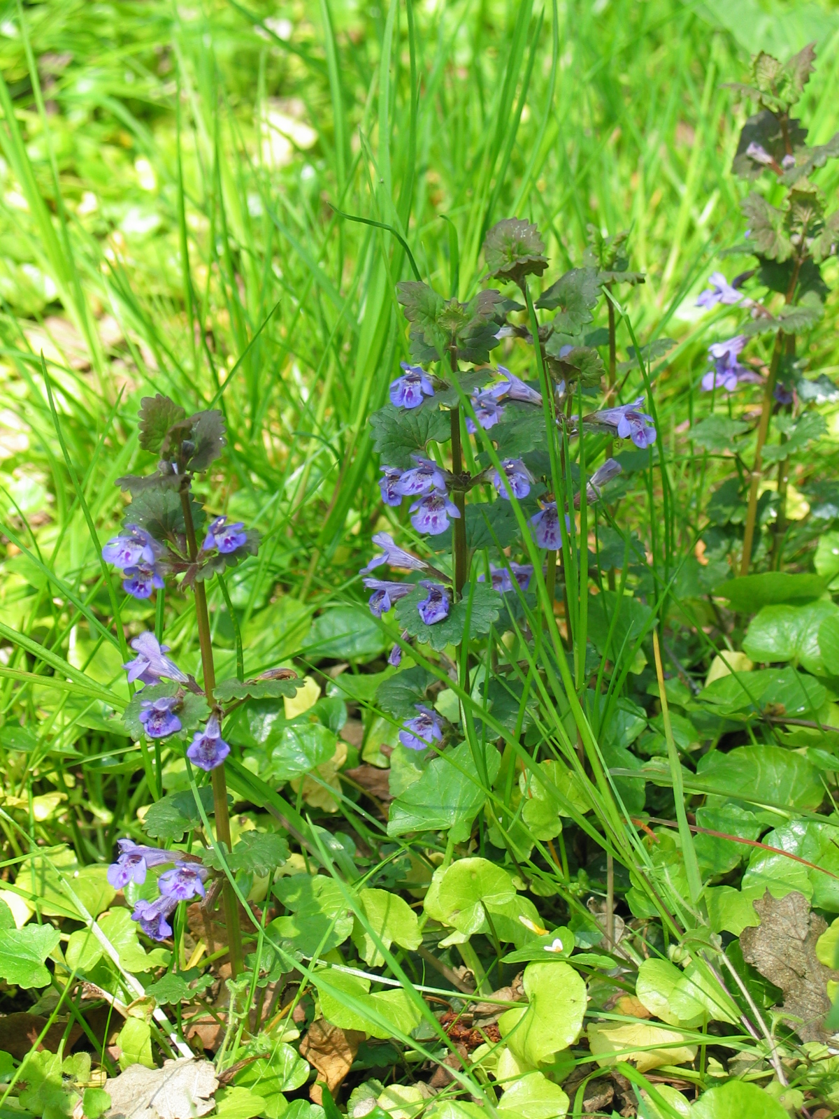 Glechoma hederacea in flower, Sołtysowicki Forest, Wrocław, Poland.